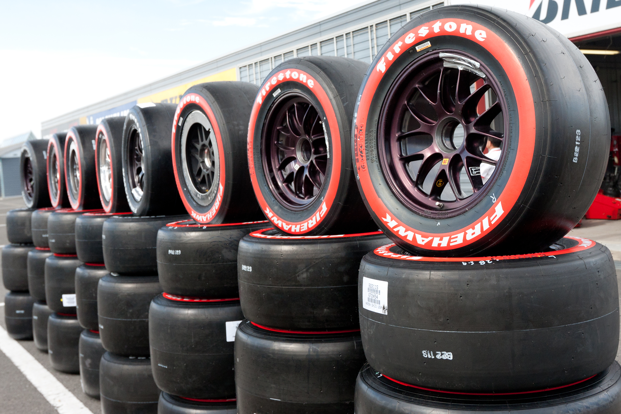 IndyCar Series 2011 Rd.15 Indy Japan 300: Firestone tires